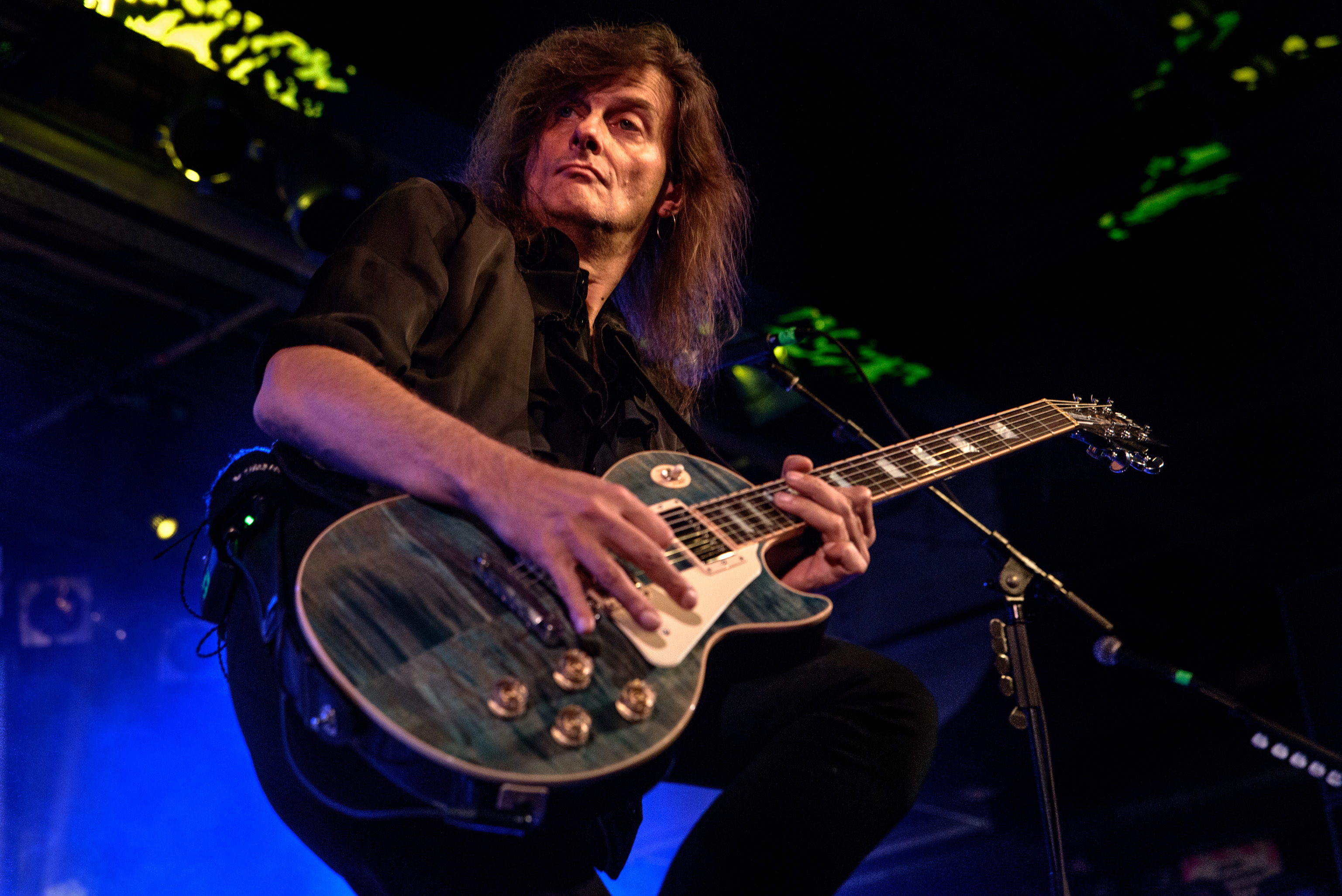 Helloween Live @ Backstage Werk, Munich